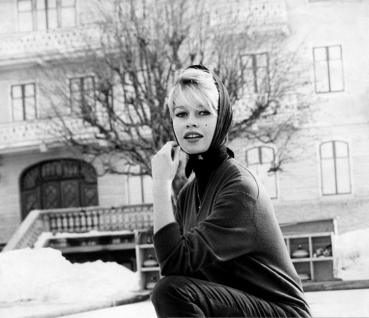 The French actress and model Brigitte Bardot posing on a curling field. Cortina d'Ampezzo